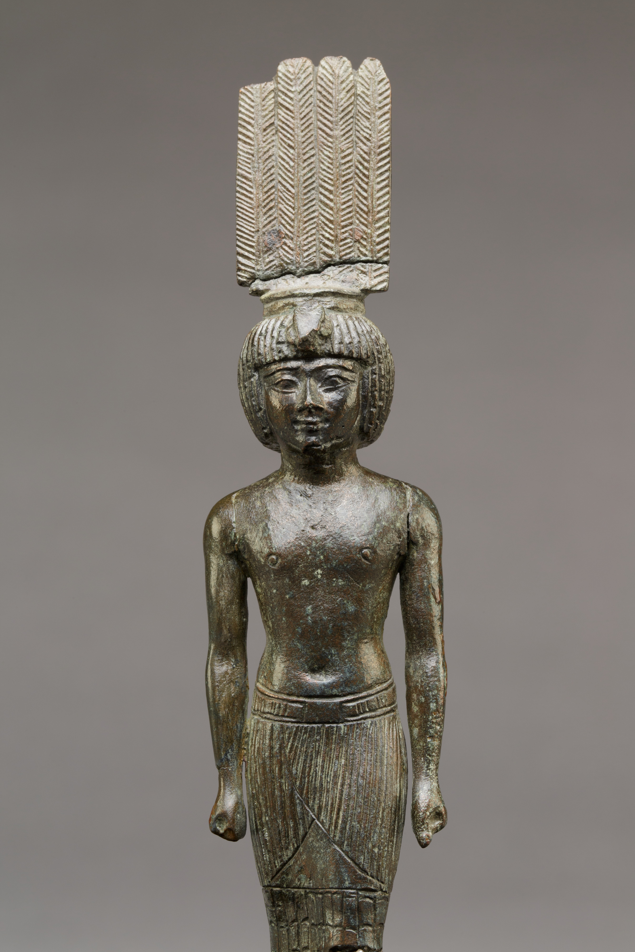 Onuris